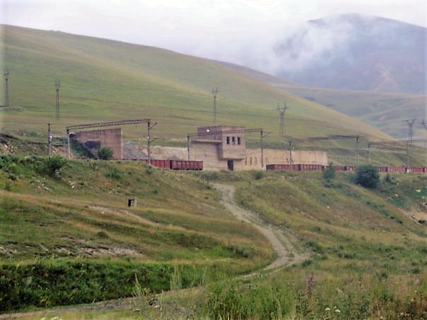 Railway Station Sotk (former Zod) in the marz (region) Gegharkunik, Armenia.